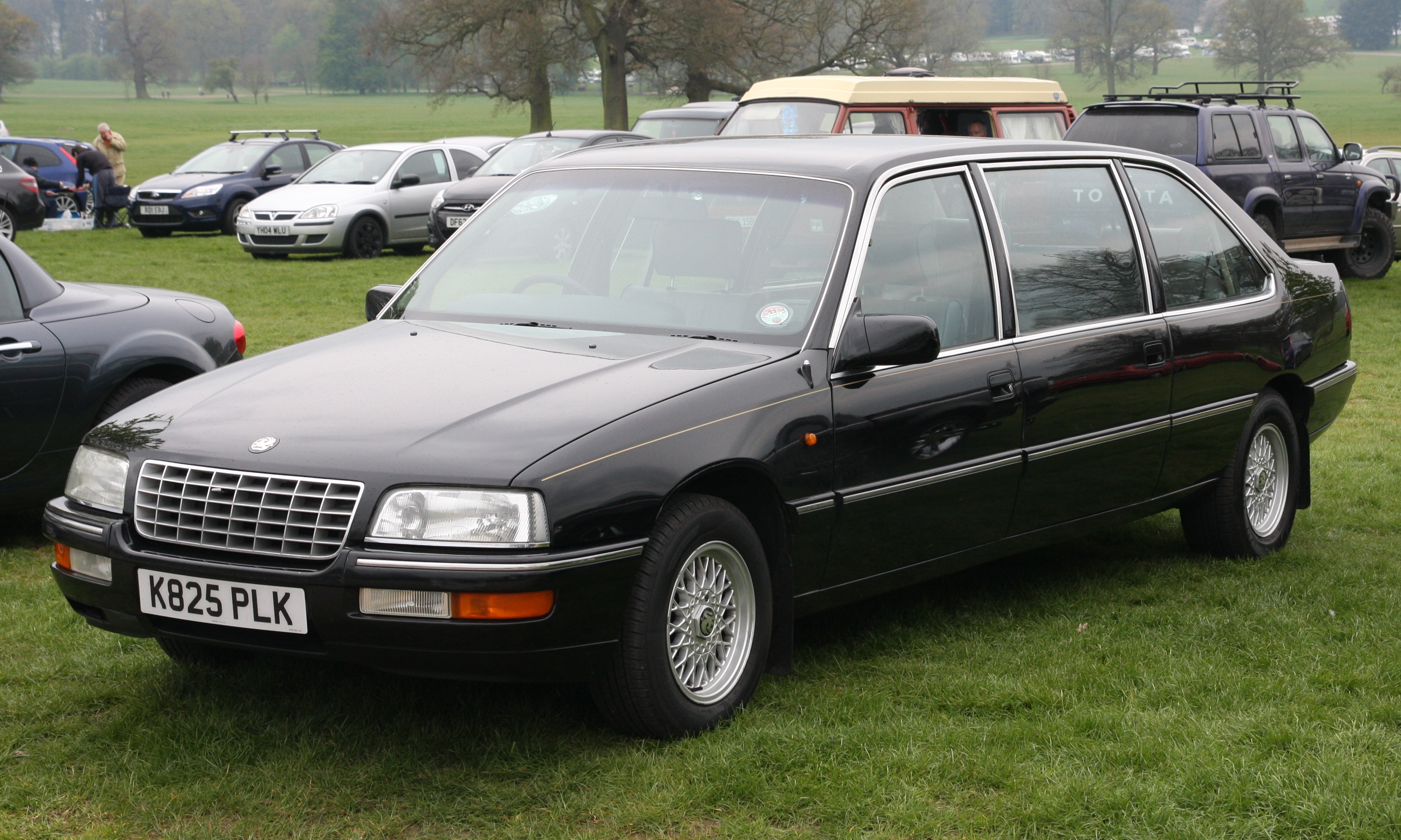 Limousine apparently based on a lengthened Vauxhall Senator B. The badge on the nose is a Vauxhall badge. Written across the back is the word "Statesman" which is a name used by Holden.